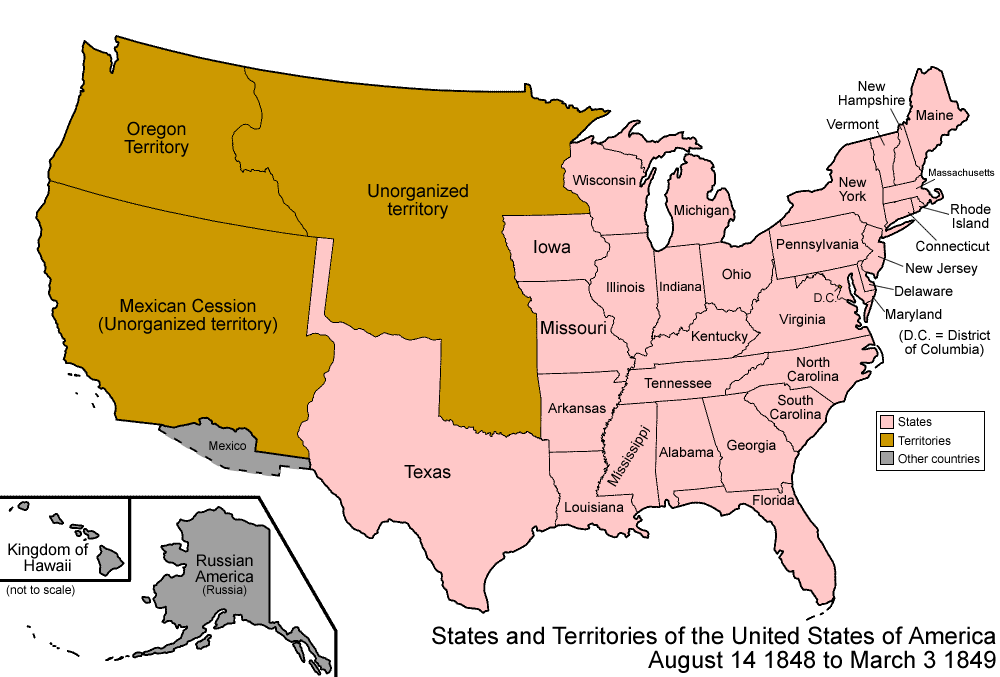 Map of the states and territories of the United States as it was from August 1848 to 1849. On August 14 1848, Oregon Territory was organized. On March 3 1849, Minnesota Territory was organized.